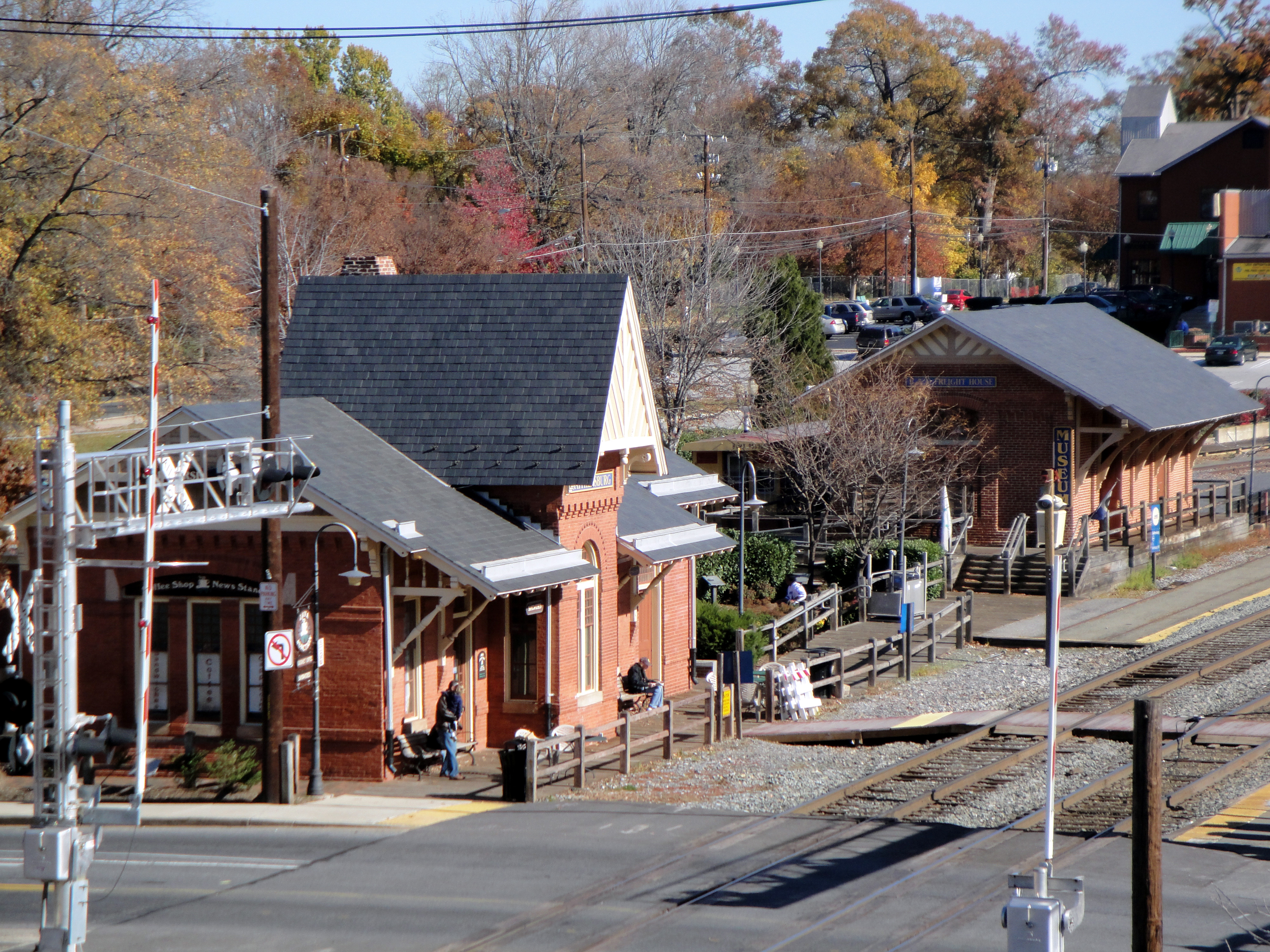 View of Gaithersburg, Maryland passenger station and freight station. Built in 1884 by Baltimore and Ohio Railroad.